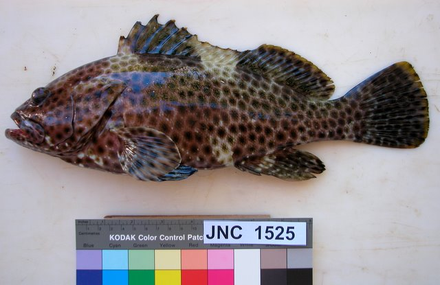 Epinephelus maculatus. Locality: Récif Aboré, off Nouméa, New Caledonia. Fork Length 355 mm, Weight 600 grams. Date 2005/04/26.